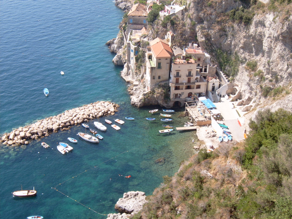 View of the Marina di Conca in Conca dei Marini, in the Amalfi Coast